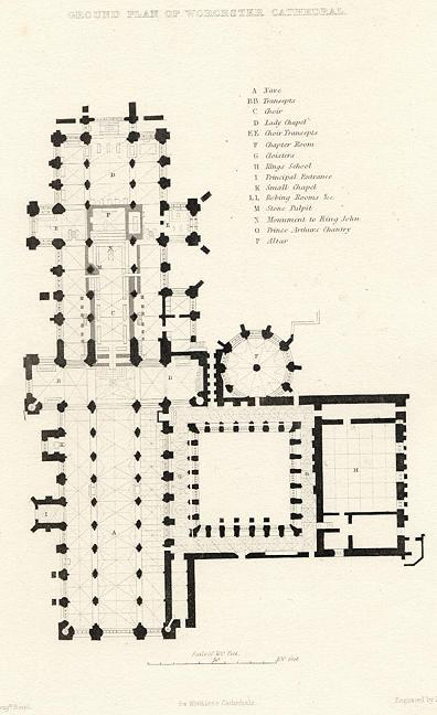 A plan of Worcester Cathedral made in 1836 (engraved by B.Winkles after a drawing by Benjamin Baud).